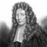 French historian and translator Louis Cousin (1627-1707)